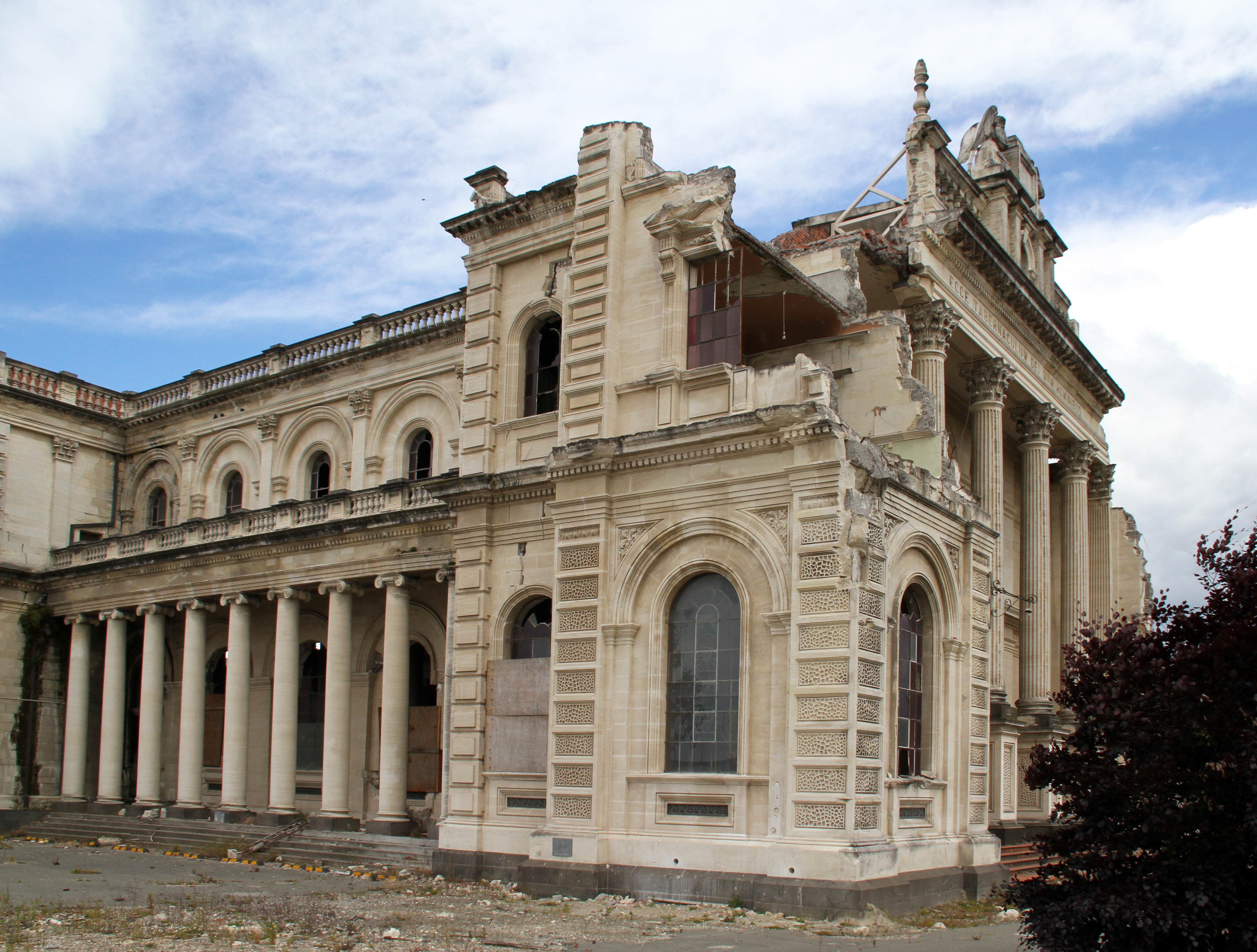 Destroyed in the Earthquake of 2011